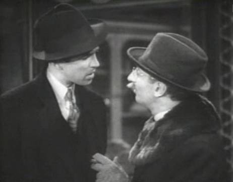 Cropped screenshot of the film The Shop Around the Corner